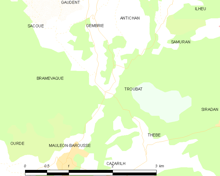 Map of French municipality